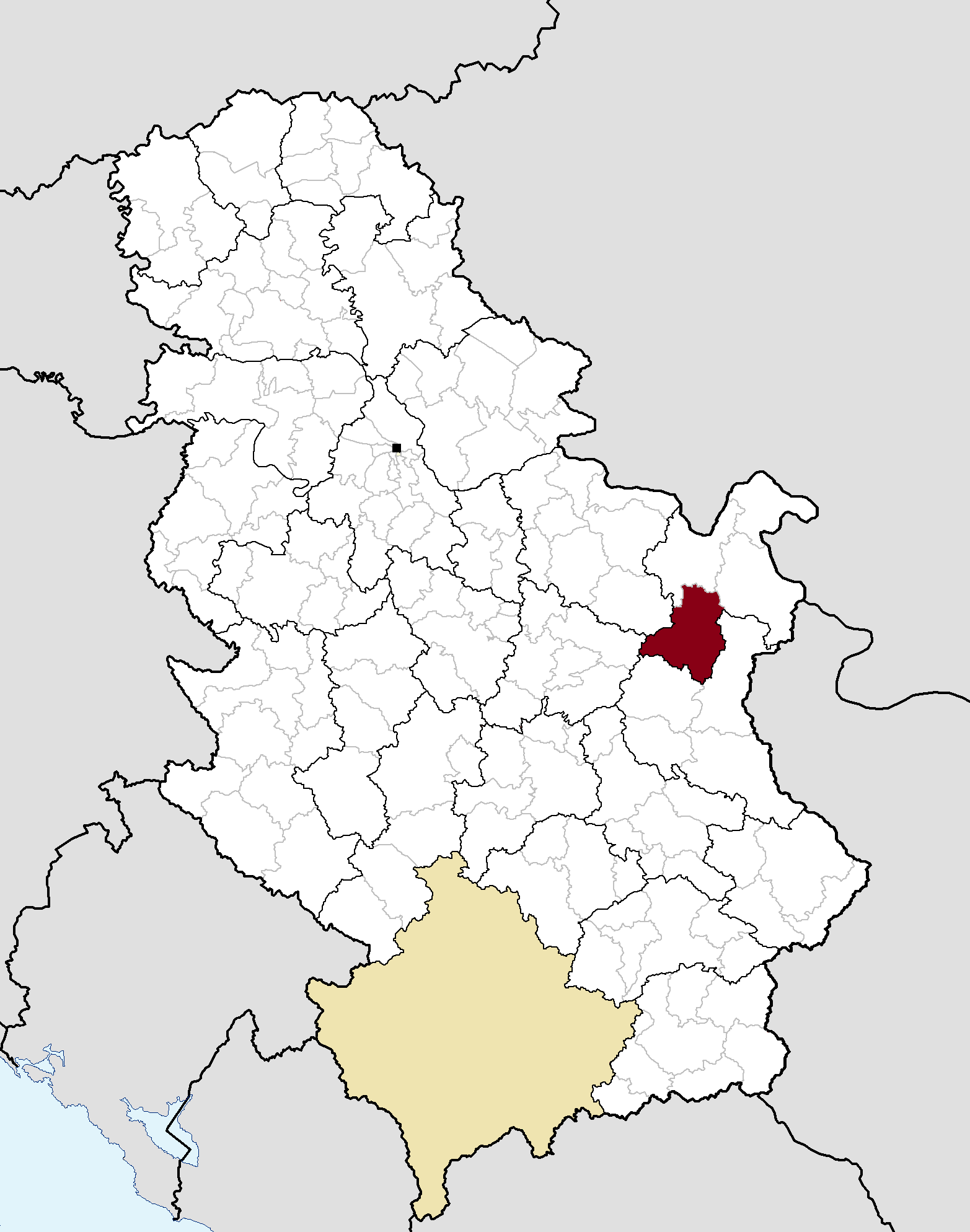 Municipal location in Serbia